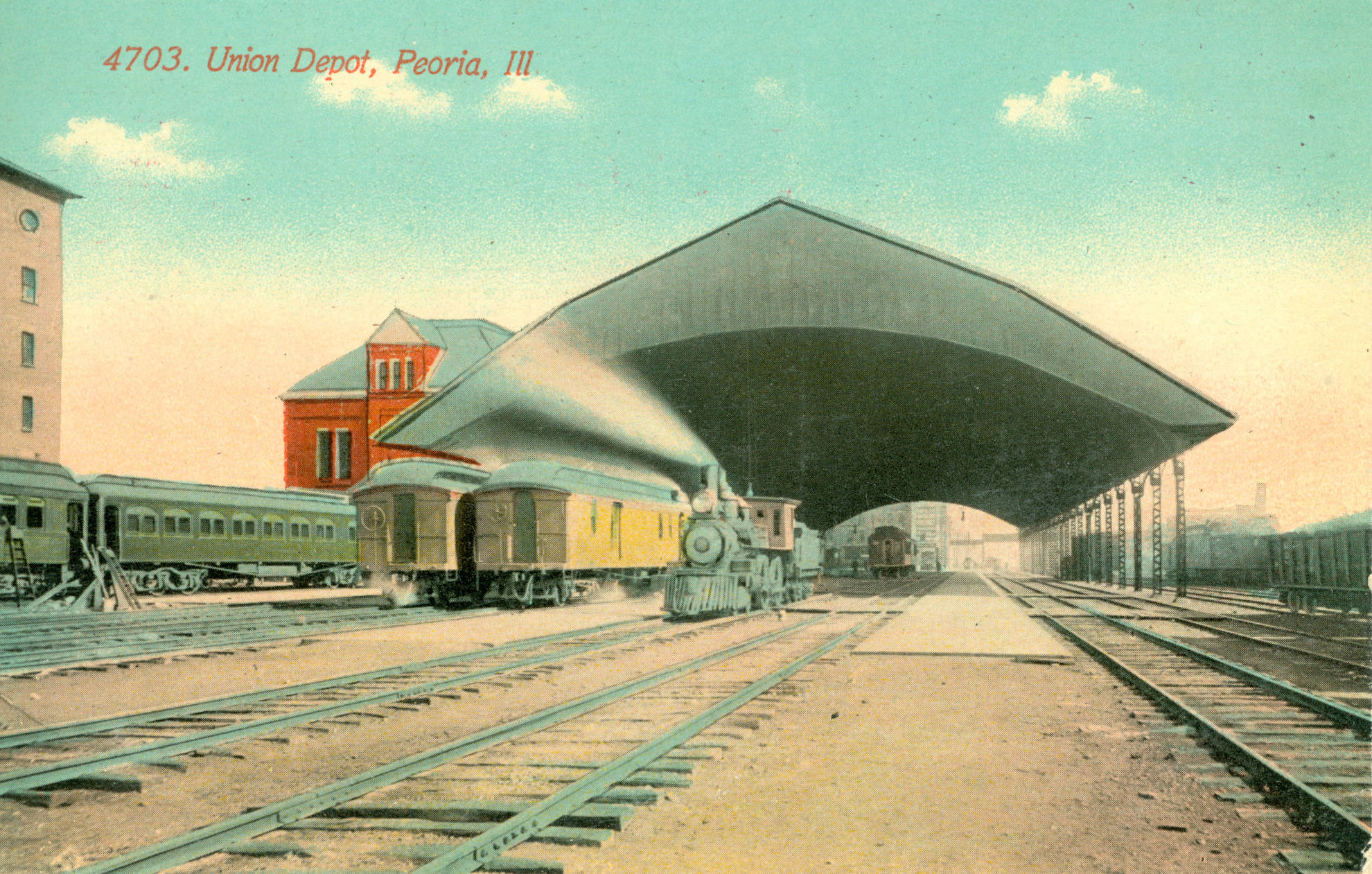 Postcard of Union Station in Peoria, Illinois. (The station sat at the foot of State Street from 1882 to 1963.)